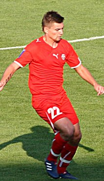 Valeriy Kutsenko